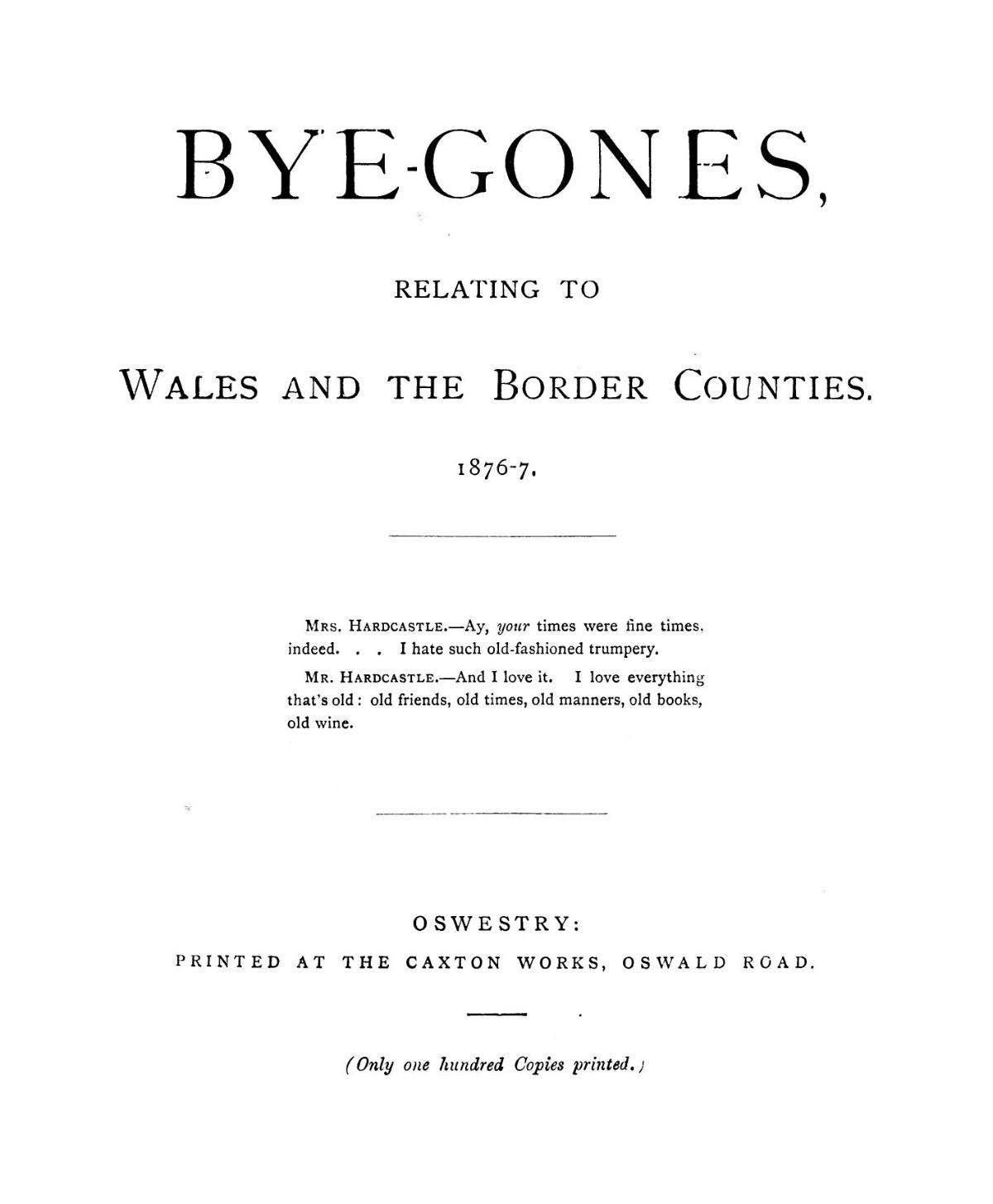 A quarterly antiquarian periodical that covered Wales and the border counties and published antiquarian articles that had originally appeared in the Oswestry Advertizer and Border Counties Herald. The periodical was edited by the antiquarian, author and journalist, John Askew Roberts (1826-1884), who had also served a the Advertizer's editor. Amongst the periodical's main contributors was the antiquarian William Wynne (1808-1880), Peniarth.